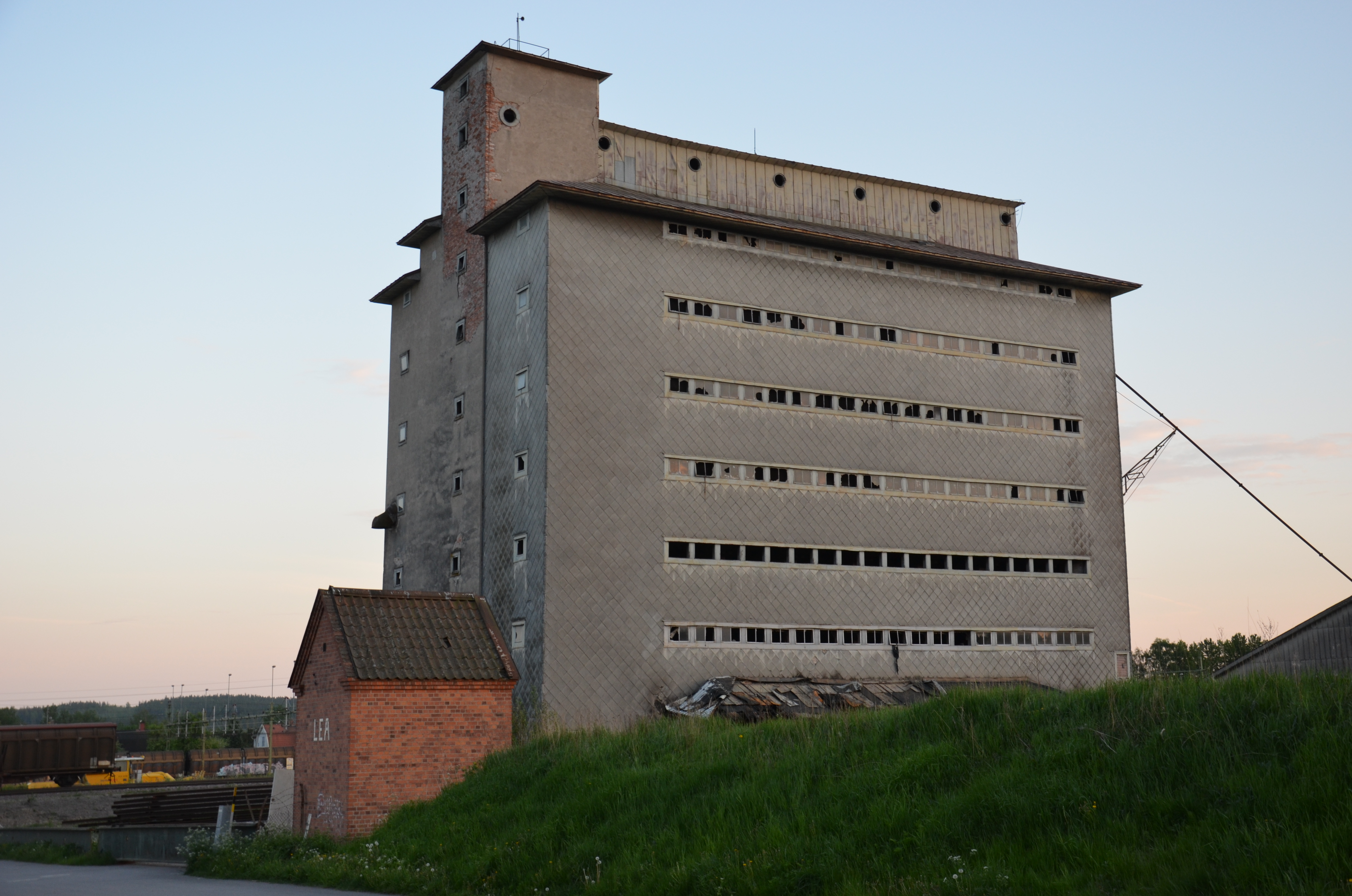 Godown in Hallsberg, built during WWI as part of a national Swedish cereals storage system of nine godowns. Exterior is by Gunnar Asplund. THe Hallsberg godown is now (May 2012) in a deteriorated stage. A similar godown in Vara is still in use as a godown, and a third existing on in Eslöv has been converted to a dwelling building.